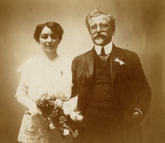 Maria and Alphonse Mucha on their wedding day, 1906